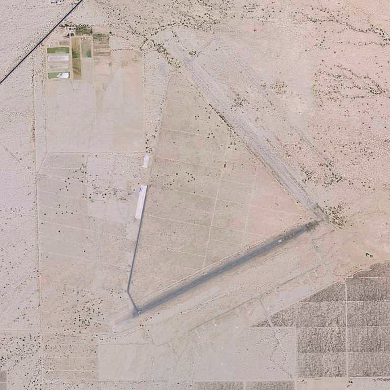 USGS digital orthophoto of Desert Center Airport in Desert Center, Riverside County, California, United States